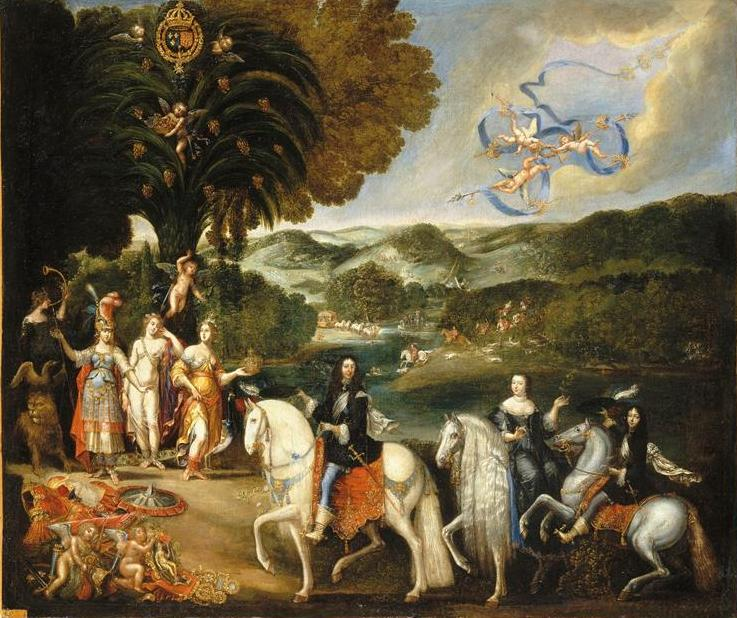 Signé le 7 novembre 1659. Portraits équestres de Louis XIV suivi d'Anne d'Autriche et de son frère Philippe, duc d'Anjou accueillis par Minerve, Vénus et Junon qui leur présentent la couronne d'Espagne